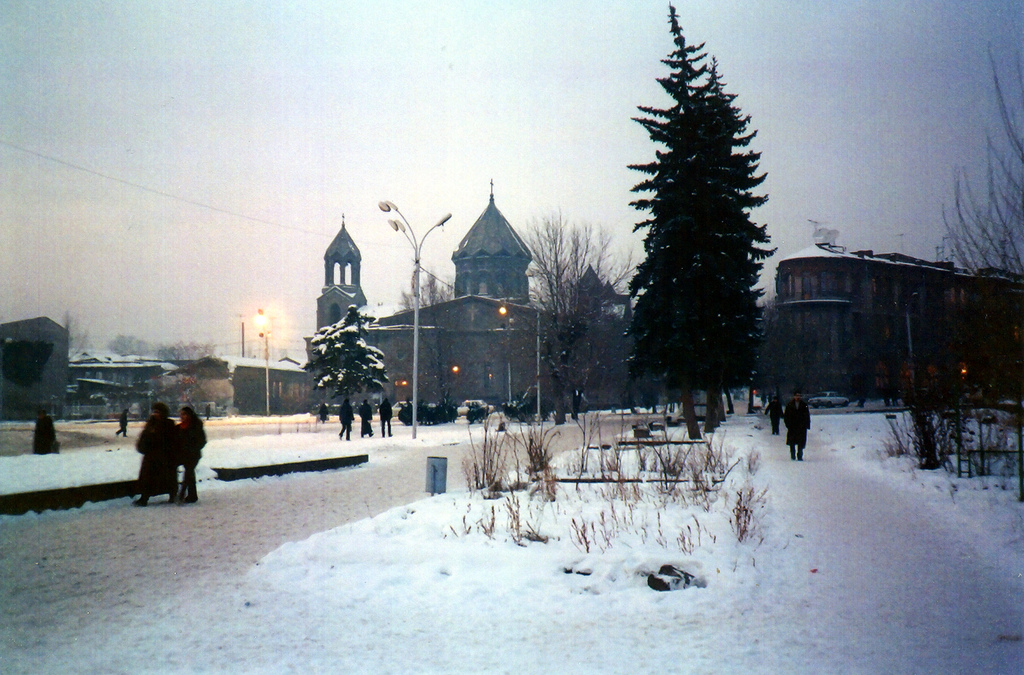 Downtown Gyumri, Armenia, in the snow